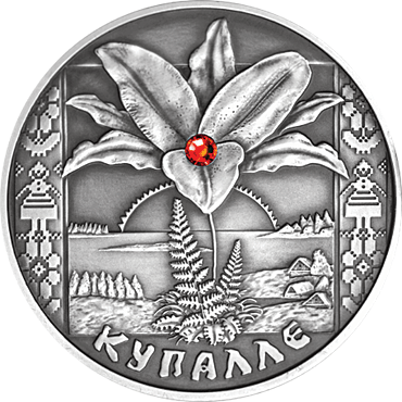 "Kupalle", Silver commemorative coins, denomination: 20 rubles